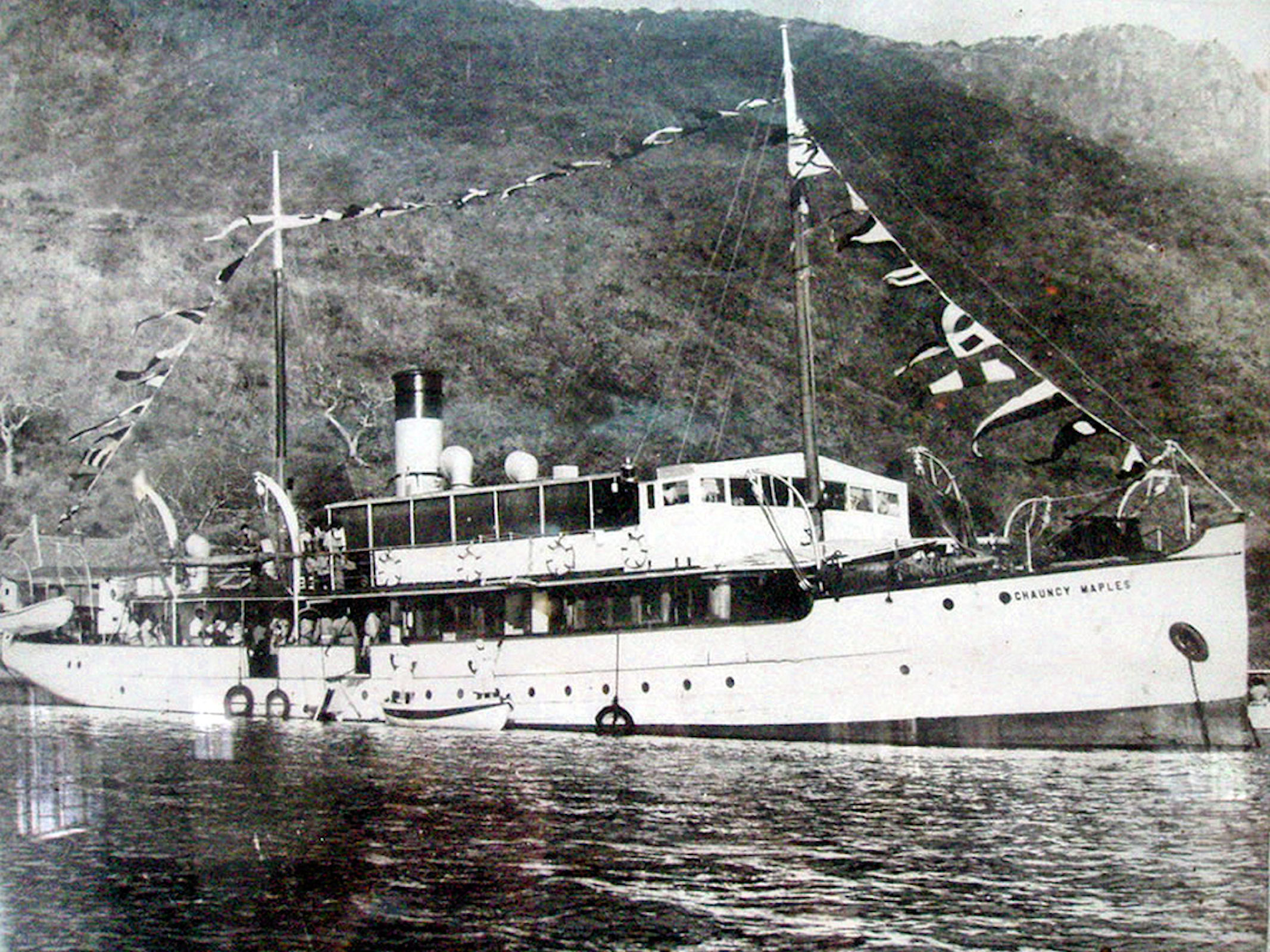 The SS Chauncey Maples bedecked with bunting to celebrate fifty years of service on Lake Nyasa.